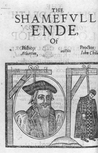 John Atherton (1598-1640) (left) and John Childe (16 -1640) (right), from the title page of the anonymous booklet The shameful ende of Bishop Atherton and his Proctor Iohn Childe, published in 1641). John Atherton, Bishop of Waterford and Lismore, was hanged for sodomy under a law that he had helped to institute. His lover was John Childe, his steward and tithe proctor, also hanged.